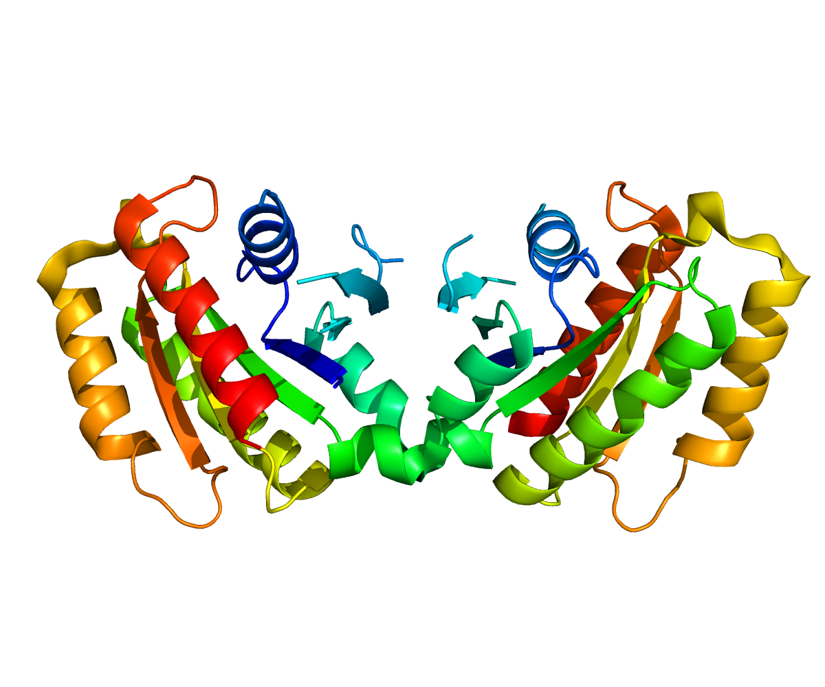 Structure of protein LRRK2. Based on PyMOL rendering of PDB 2ZEJ.